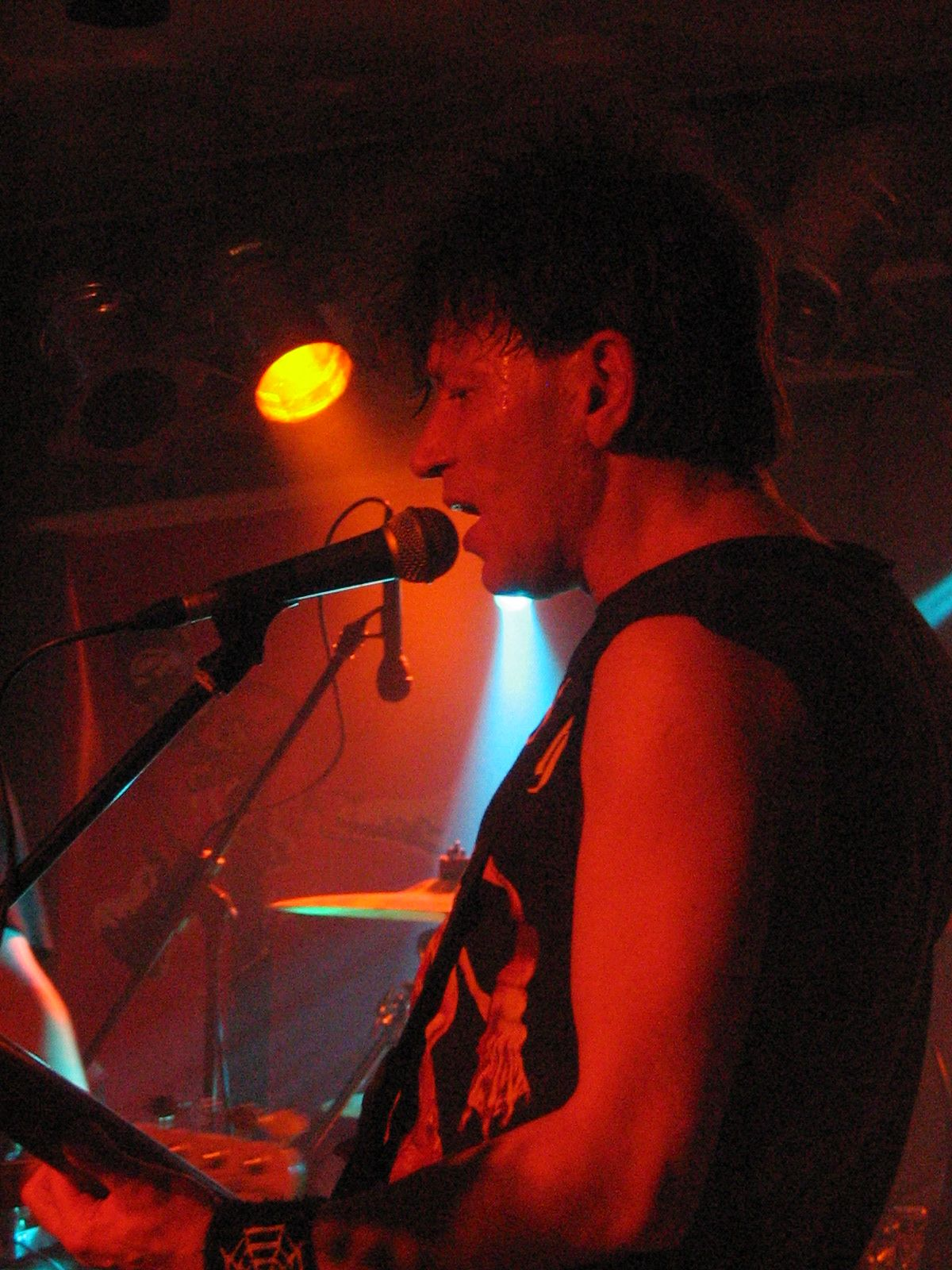 on photo KSU Polish punk rock band